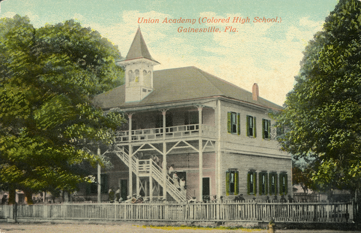 The Union Academy was expanded, including adding a scond floor, around 1890, and remained in use until 1923.